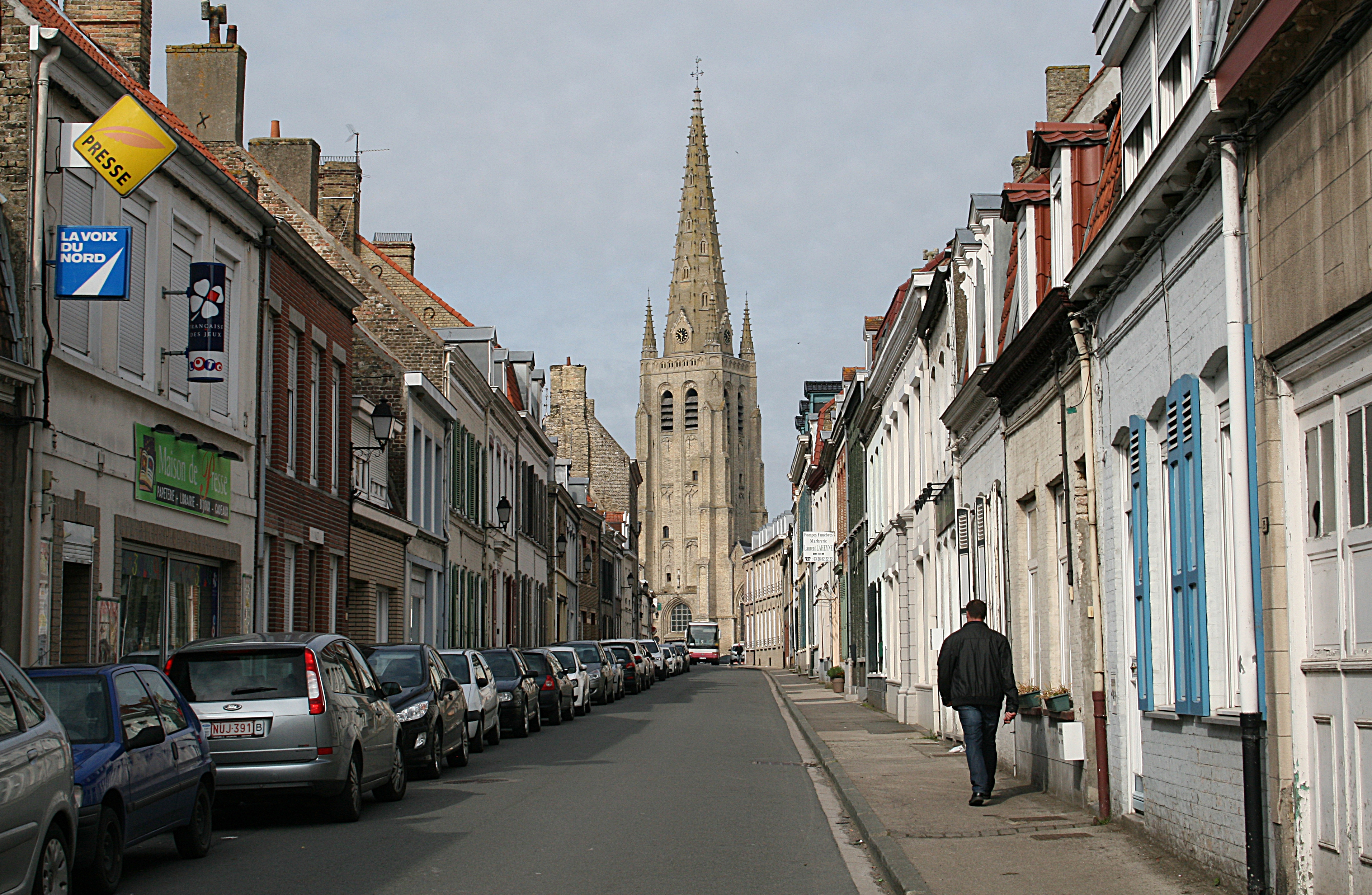 Rue de la Liberation and Saint-Vaast church in Hondschoote (Nord department, France).